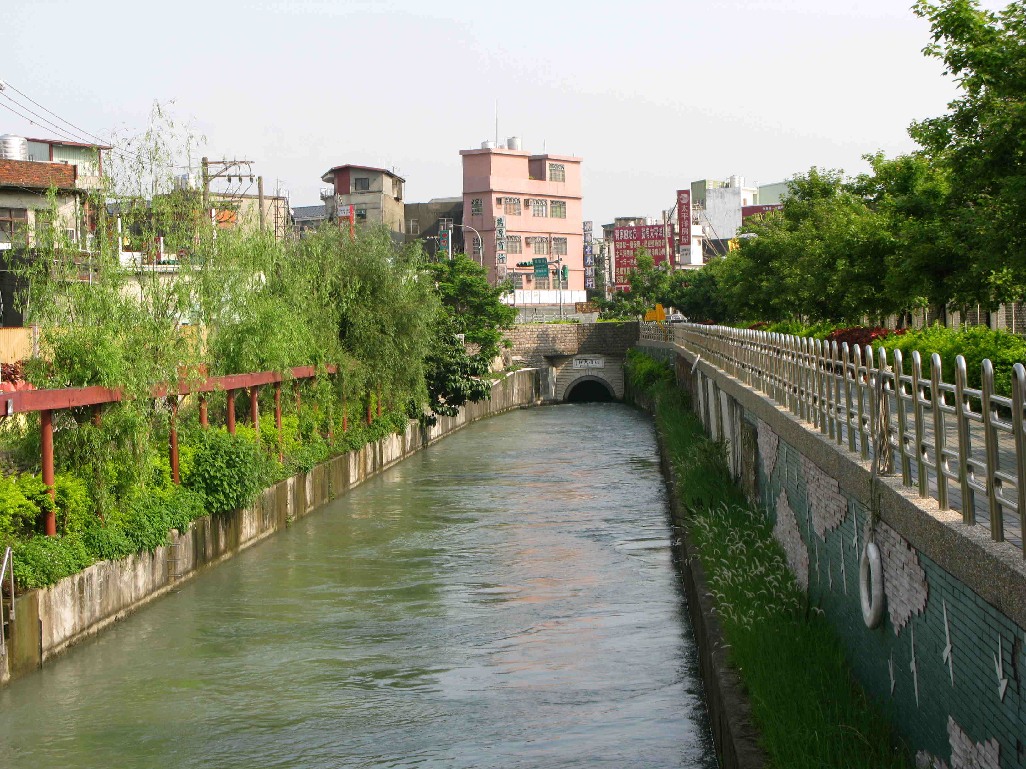 Taoyuan main Canal-3, Taiwan